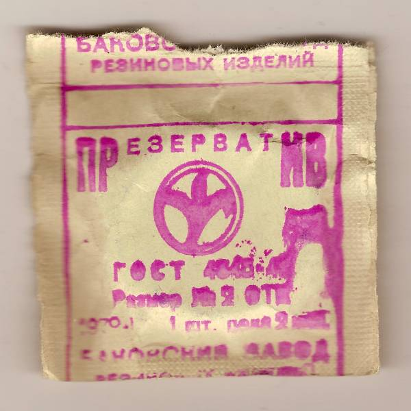 Soviet condom